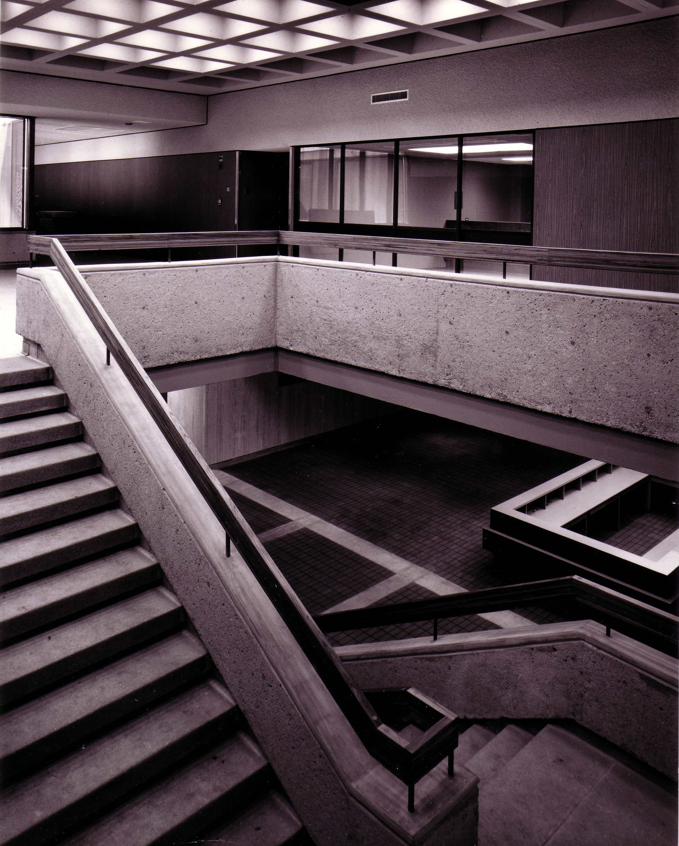 Denver General Hospital Stairway, architect Eugene Sternberg